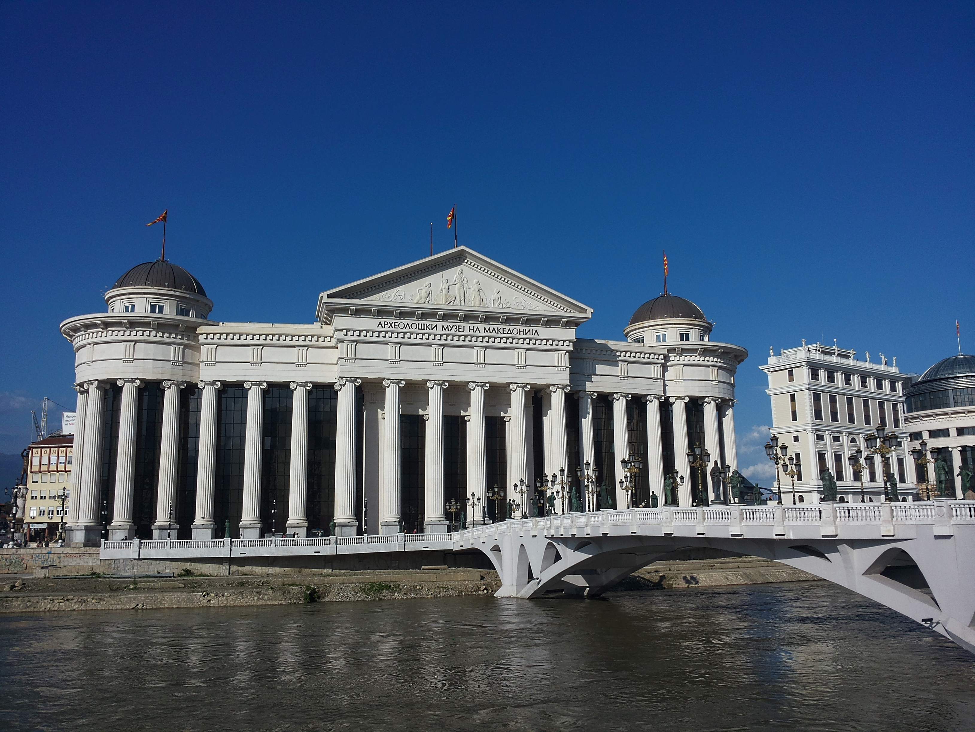 Archeological Museum of Macedonia